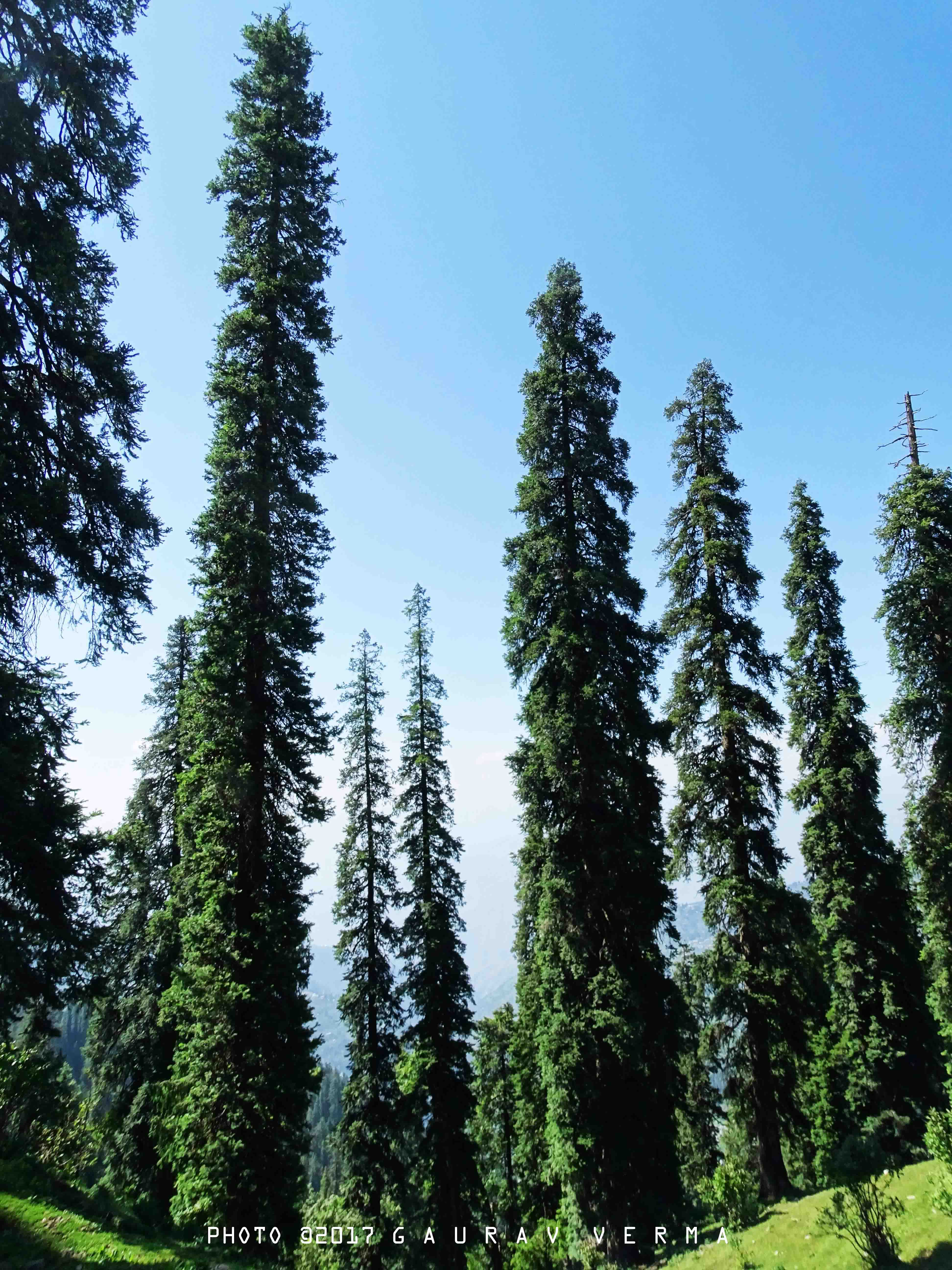 Abies pindrow in its natural habitat at Hatu Peak, India.